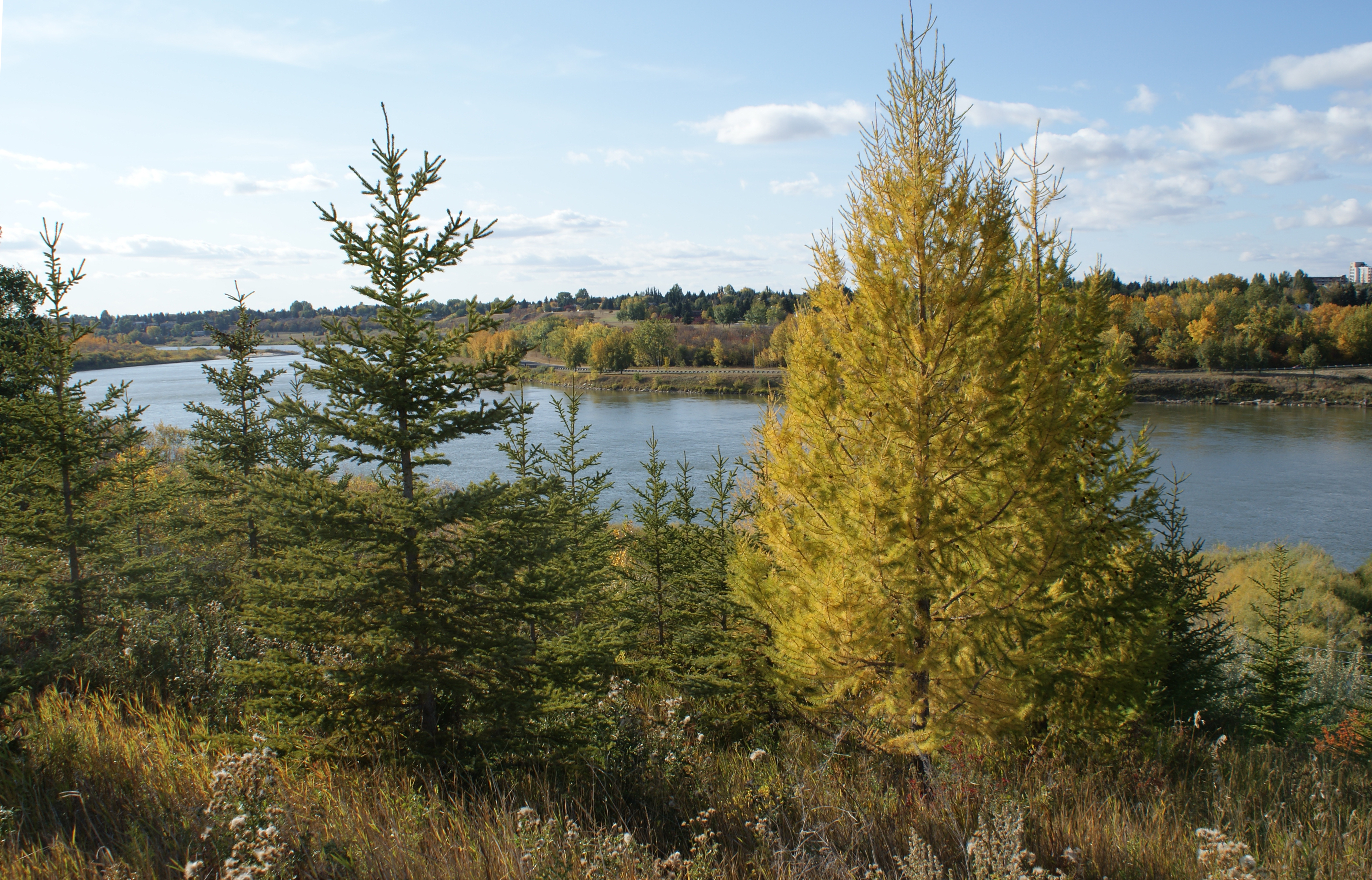 White Spruce (Picea glauca) and Siberian Larch (Larix sibirica) planted on South Saskatchewan River Bank in Saskatoon